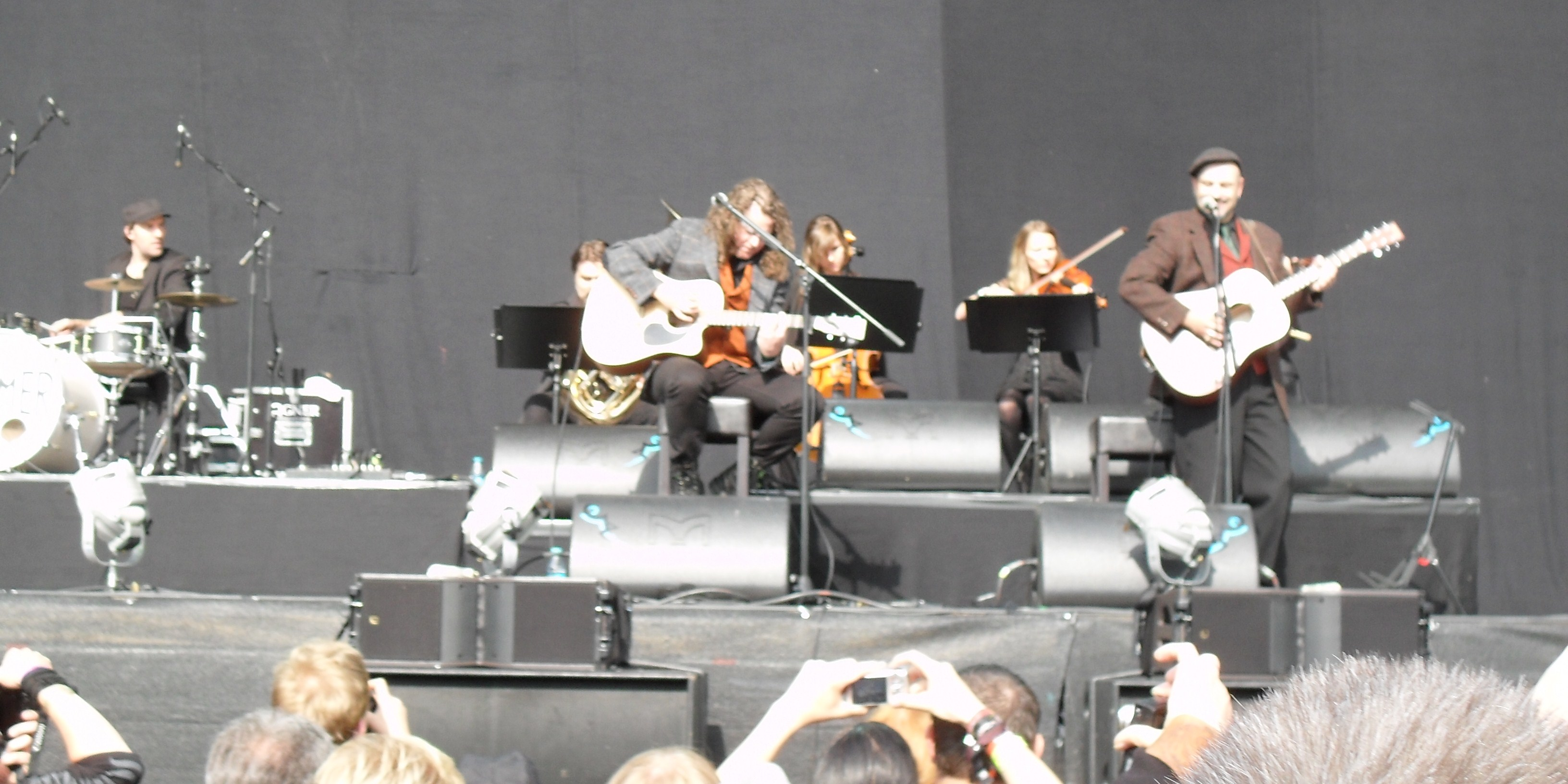 The German / Austrian music group Die Kammer during a concert in the Tanzbrunnen in Cologne on the 31th of August 2013